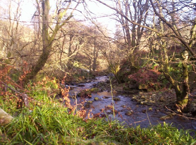 Burn of Turret. Just where it meets the Burn of Laurie